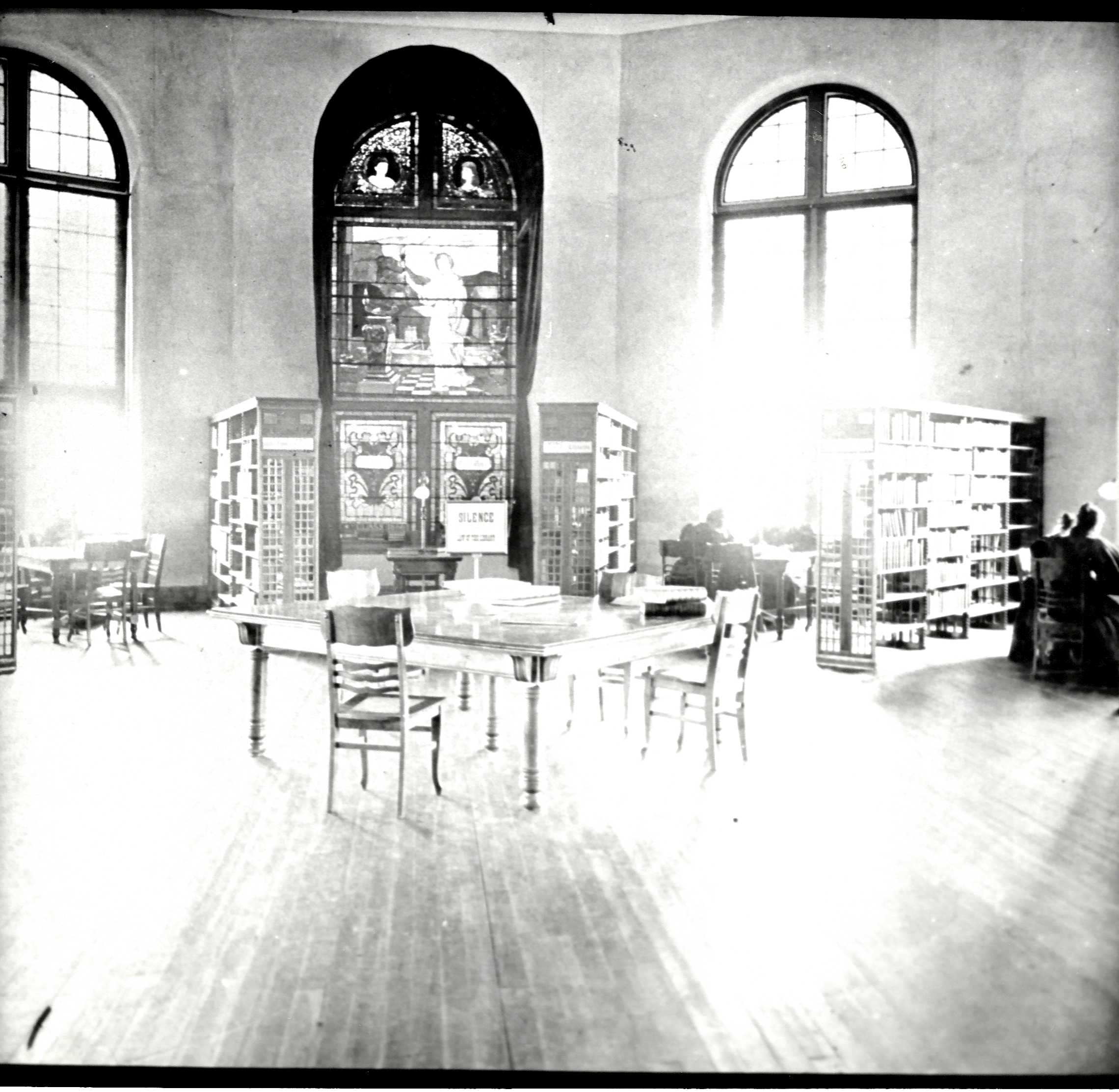 Library in Alumnae Hall - Tillinghast Window (Brice Window)